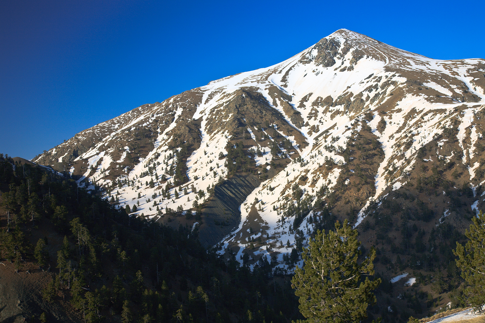 The Smolikas summit (2637) in northern Pindus mountains, Greece. Trees in foreground are Pinus heldreichii.